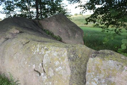 This is a picture of the Viking Altar Rock in Sauk Centre, Minnesota.